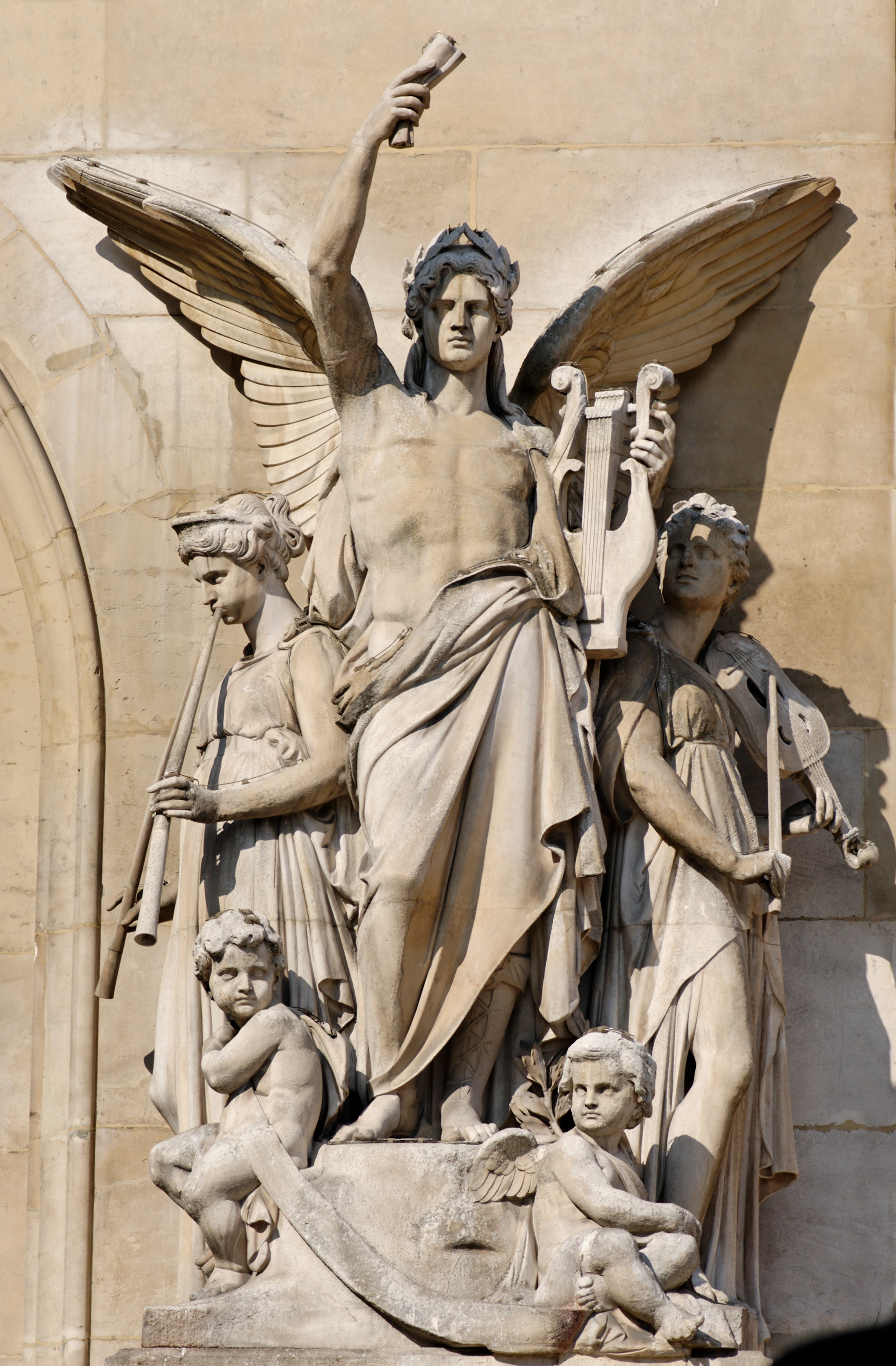 Instrumental Music by Eugène Guillaume (1822–1905). Marble, left forepart of the façade of the Palais Garnier, Paris.